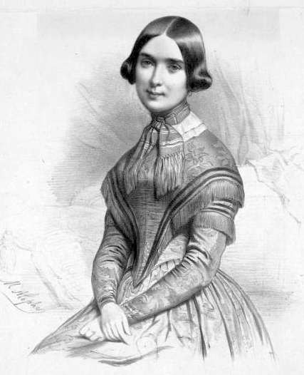 Belgian pianist Marie Pleyel (1811-1875) by Marie-Alexandre Alophe (1812-1883).